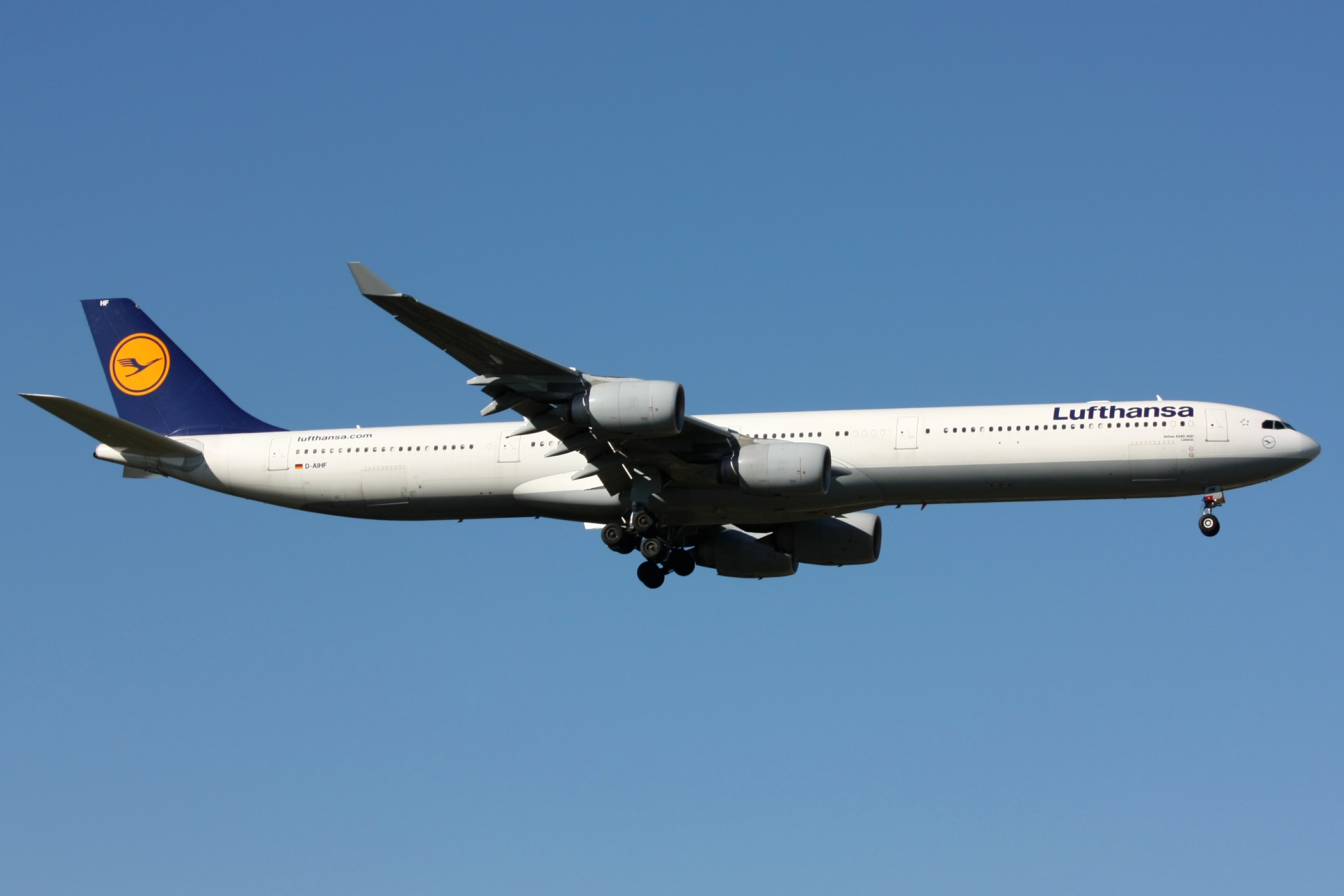 Lufthansa Airbus A40-600 D-AIHF is landing at Frankfurt Int'l Airport